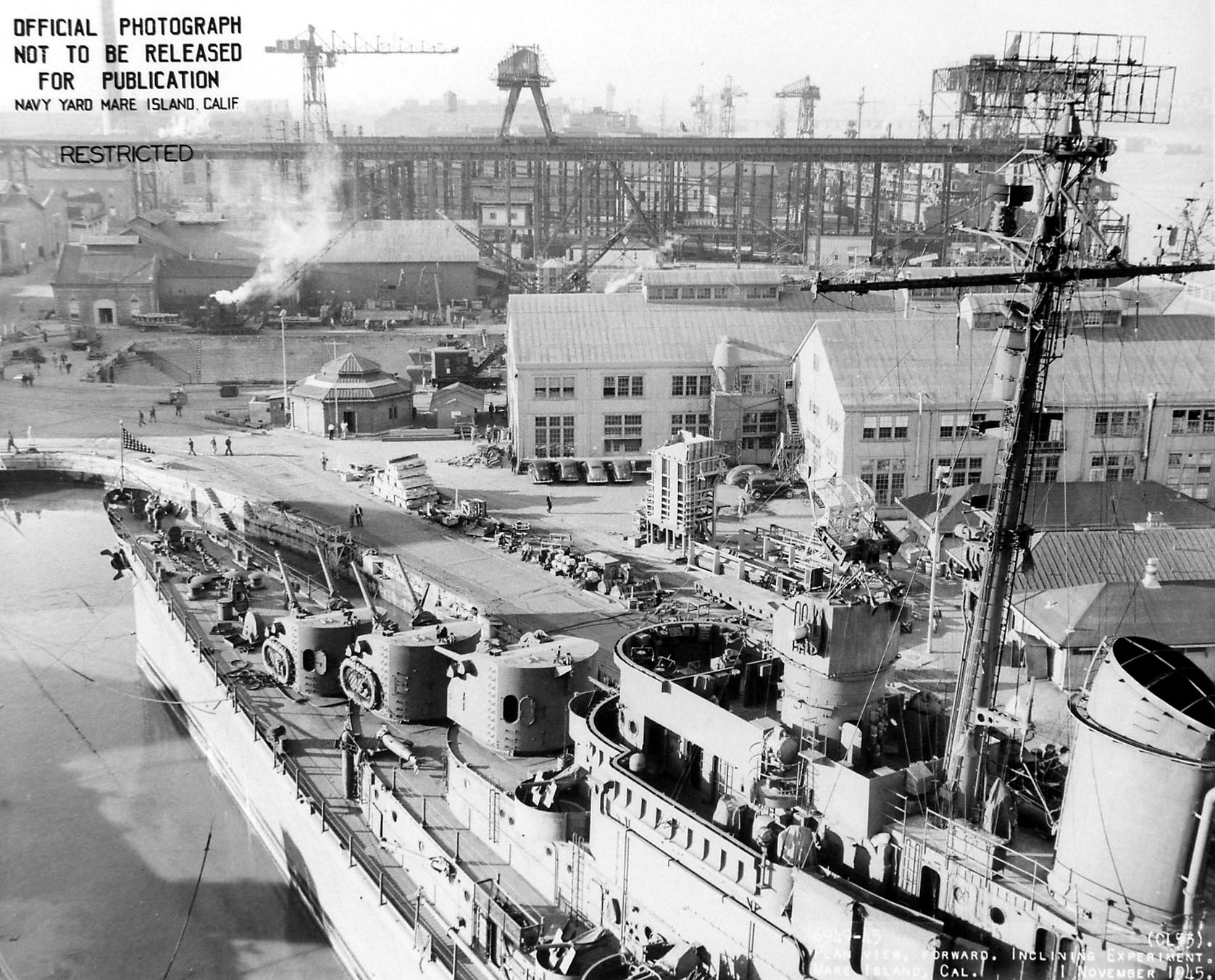 Amidships looking forward plan view of USS San Diego (CL-53) in dry dock #2 at Mare Island Naval Shipyard on 1 Nov 1945. An inclining experiment (conducted in order to estimate the center of gravity of a ship) is being performed. She was in dry dock from 1 to 15 November 1945 and in overhaul from 14 Sep to 22 Nov 1945.